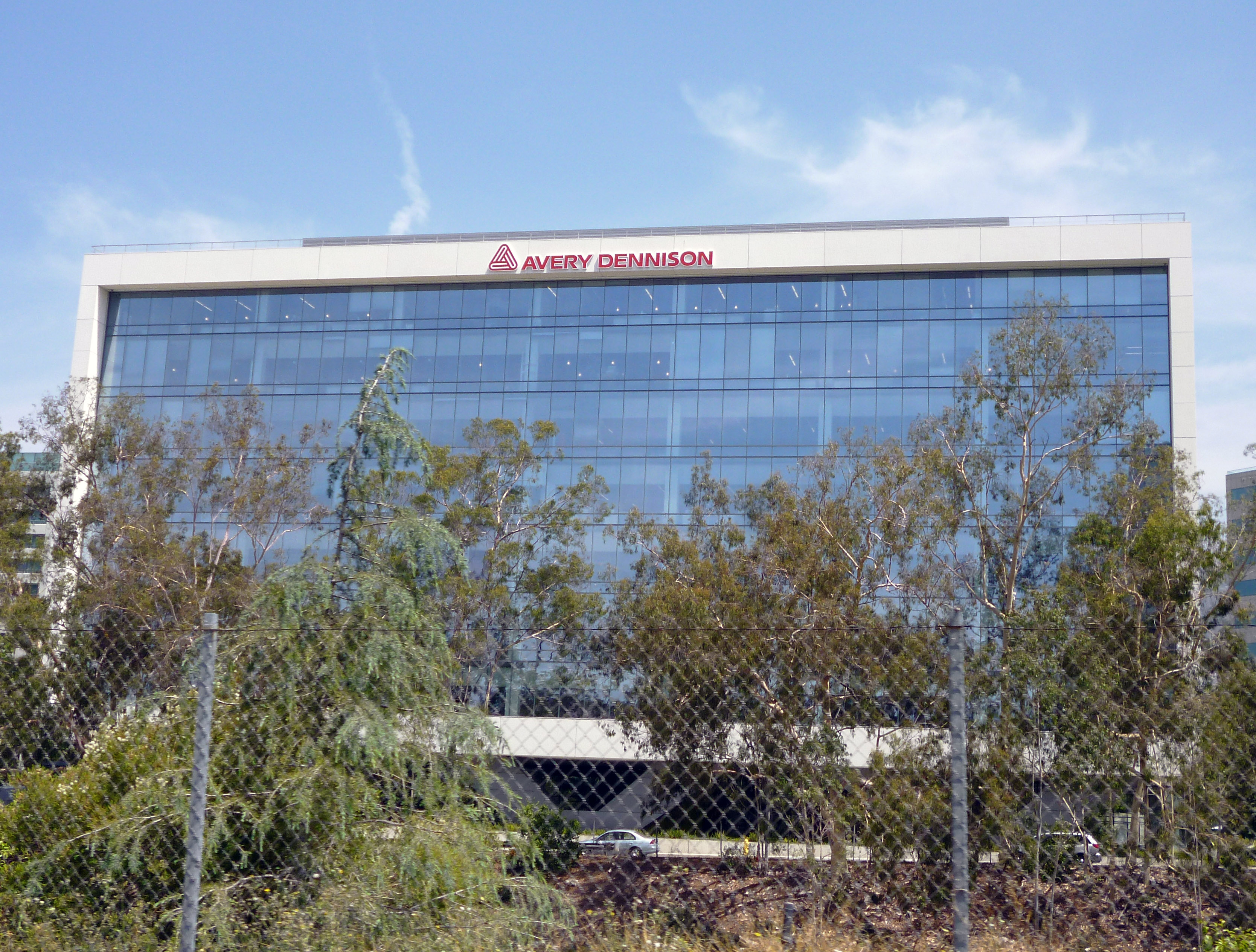 The headquarters of Avery Dennison in Glendale, California as photographed by user Coolcaesar on May 29, 2014.